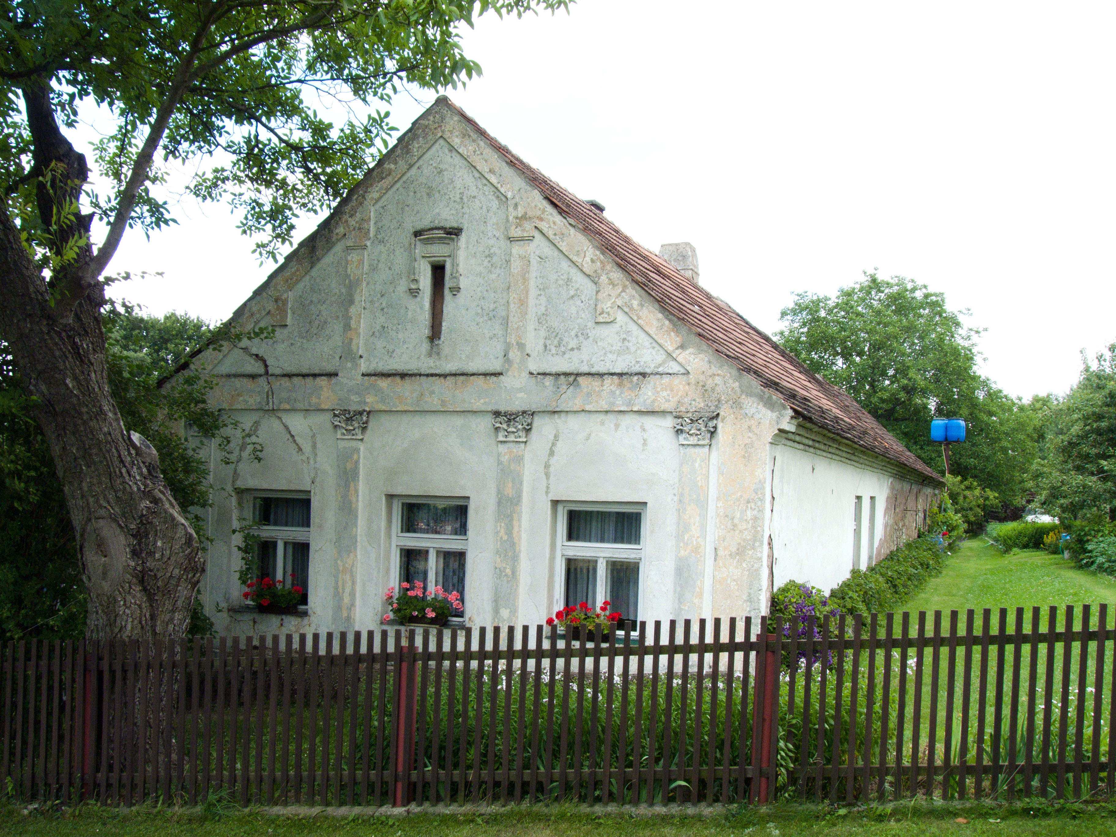 House No 5 in the village of Jelmo, České Budějovice District, Czech Republic.